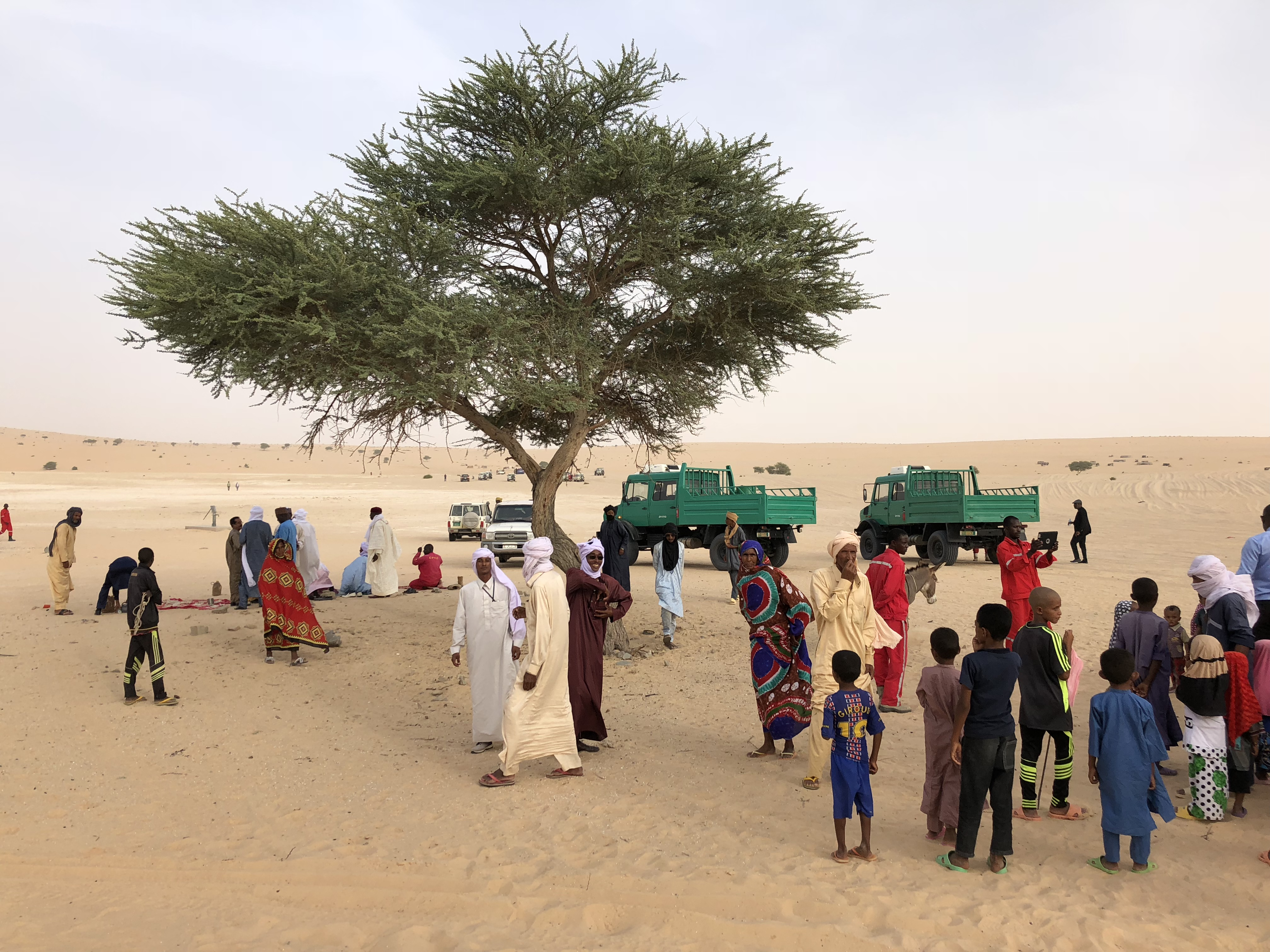 A village scene in Melek (Meleck), during a visit by a convoy of dignitaries (in the distance). Melek is located in a remote and arid part of the rural commune of N'Gourti (N'Guigmi Department, Diffa region), in the extreme east of Niger.